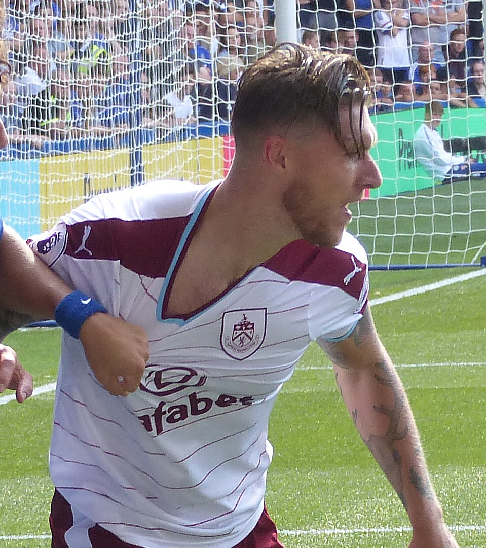 Chelsea F.C's David Luiz and Burnley F.C.'s Jeff Hendrick in a defensive tussle, Stamford Bridge, August 2017